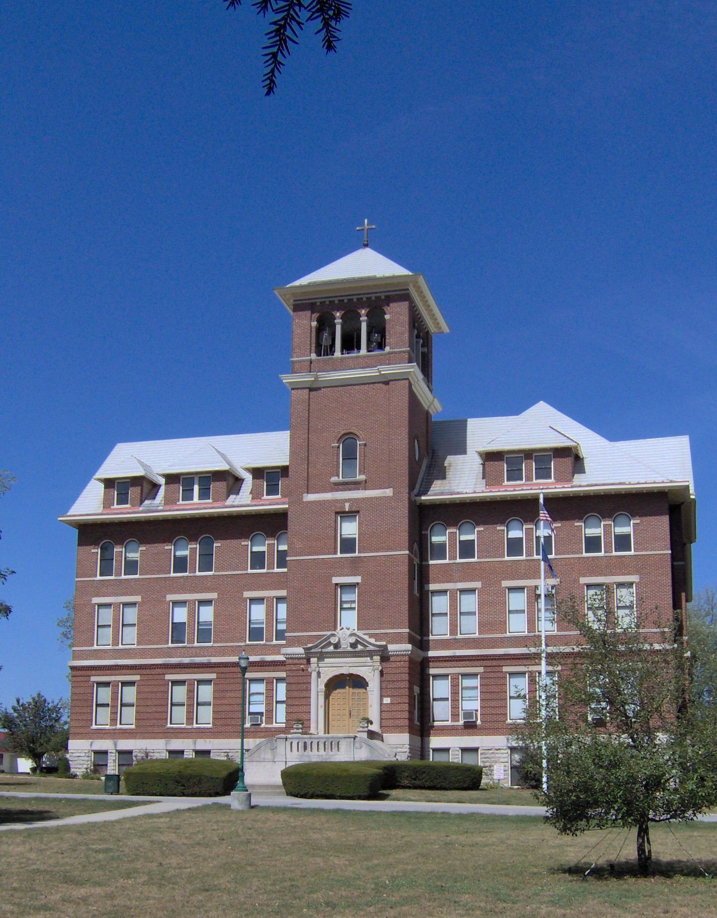 Cardome Centre is a historic property located in Georgetown, Kentucky. Currently, a community education center, previously the site was the home of Kentucky Governor James F. Robinson and a prestigious girls academy.